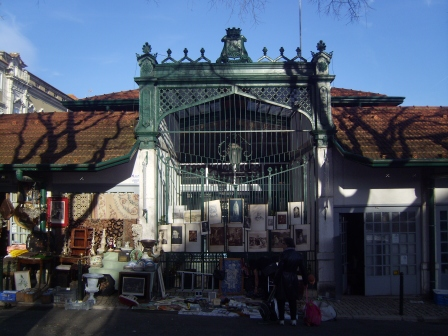 Entrada poente do Mercado de Santa Clara, em dia de Feira da Ladra.